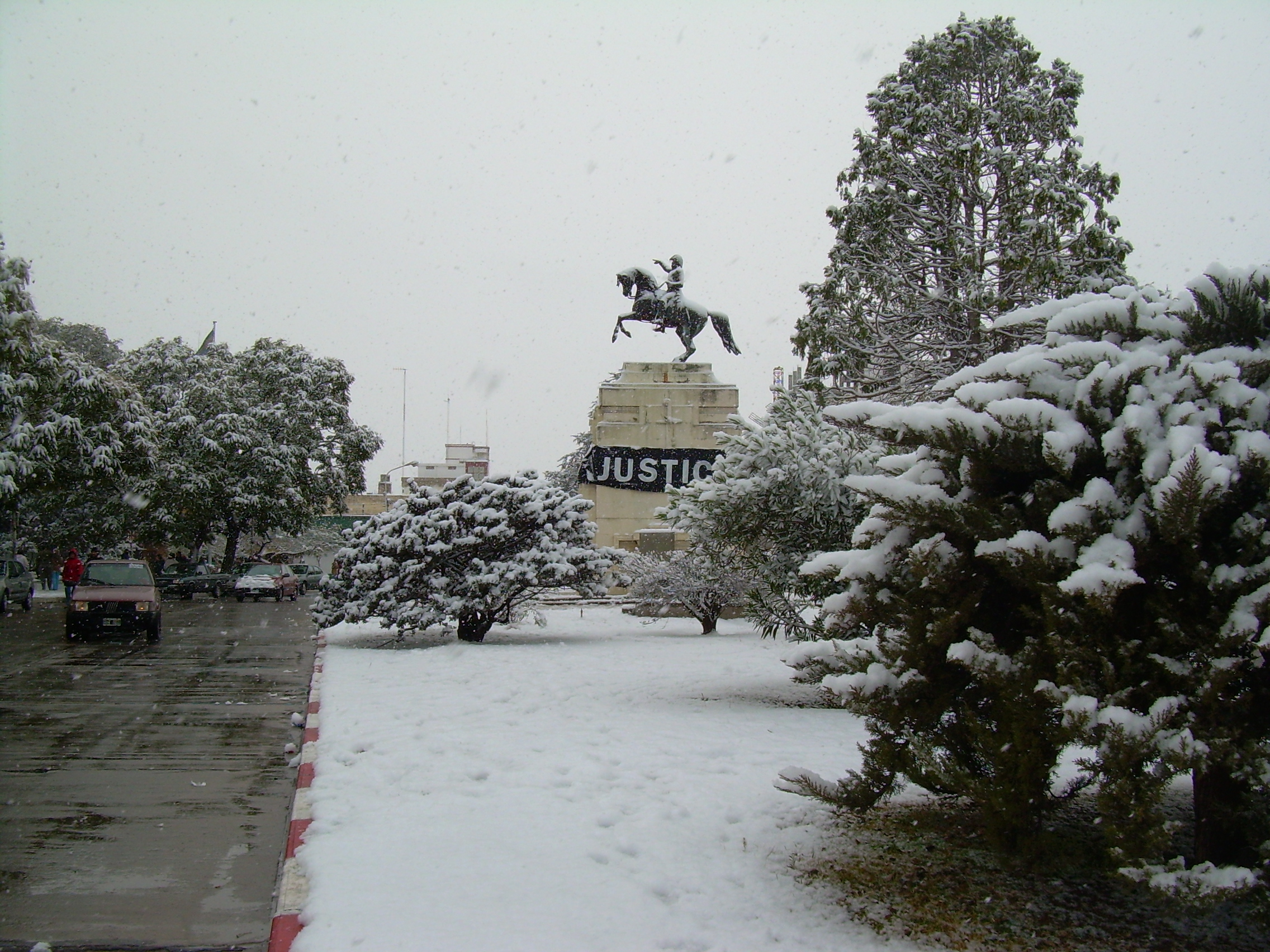 Shown July 2007